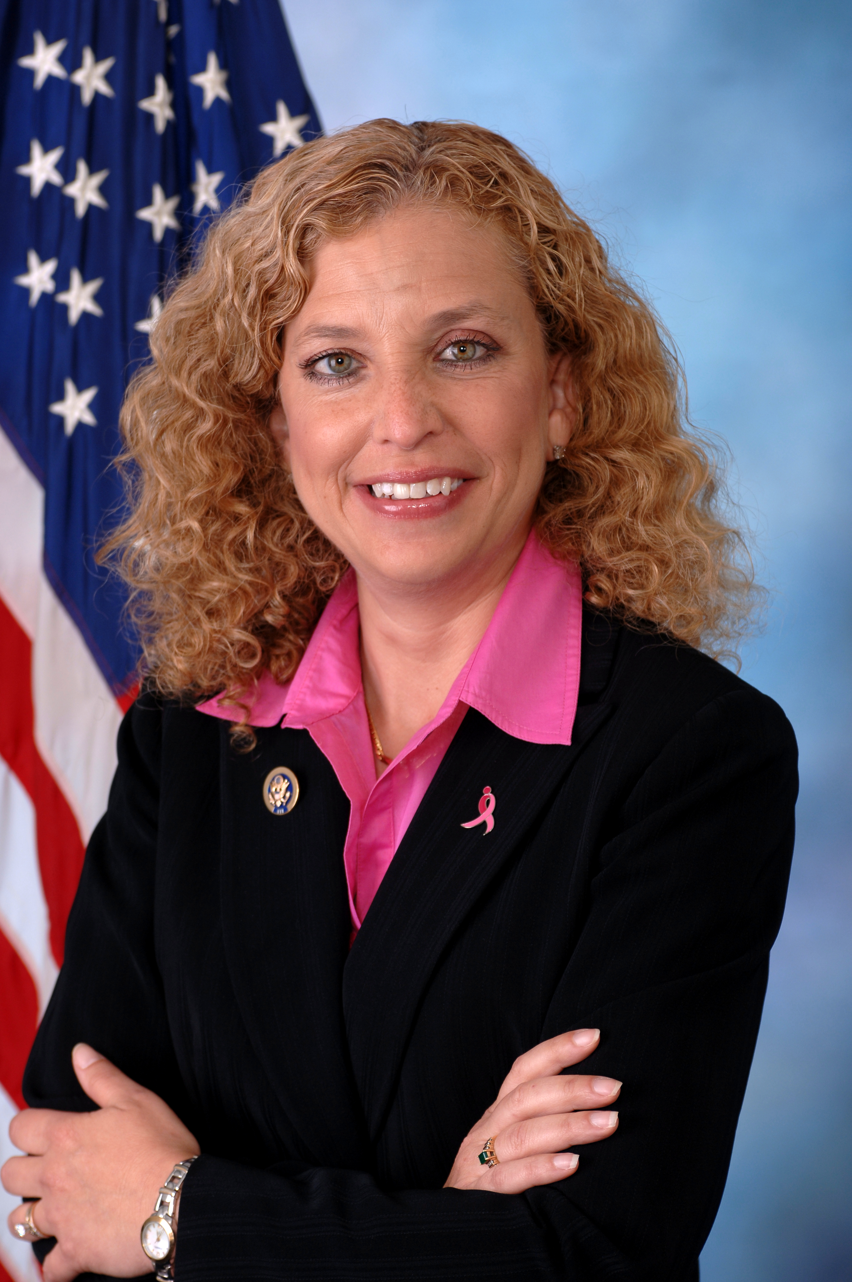 Debbie Wasserman Schultz, Congressman from Florida's 20th congressional district